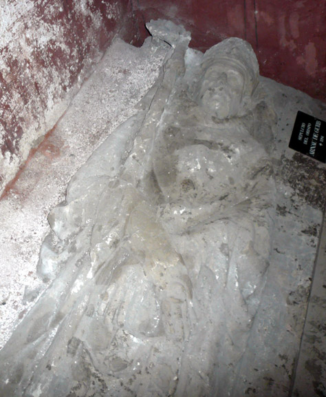 Bishop Arnau de Gurb tomb, Santa Llúcia chapel, cathedral of Barcelona